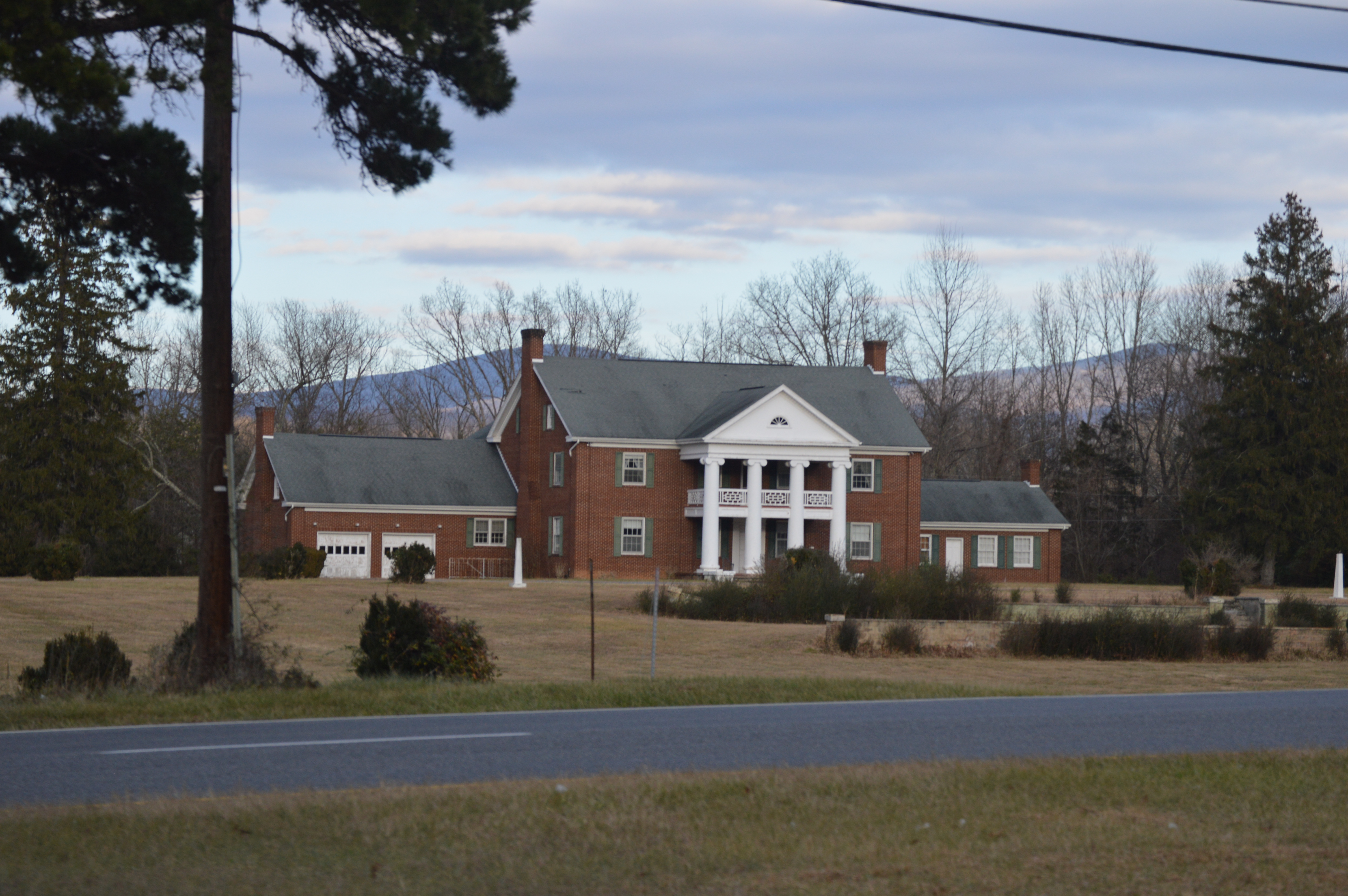 Roadside view of the Kite Mansion, located at 17271 U.S. Route 33 in Elkton, Virginia, United States. Built in 1948, it is listed on the National Register of Historic Places.